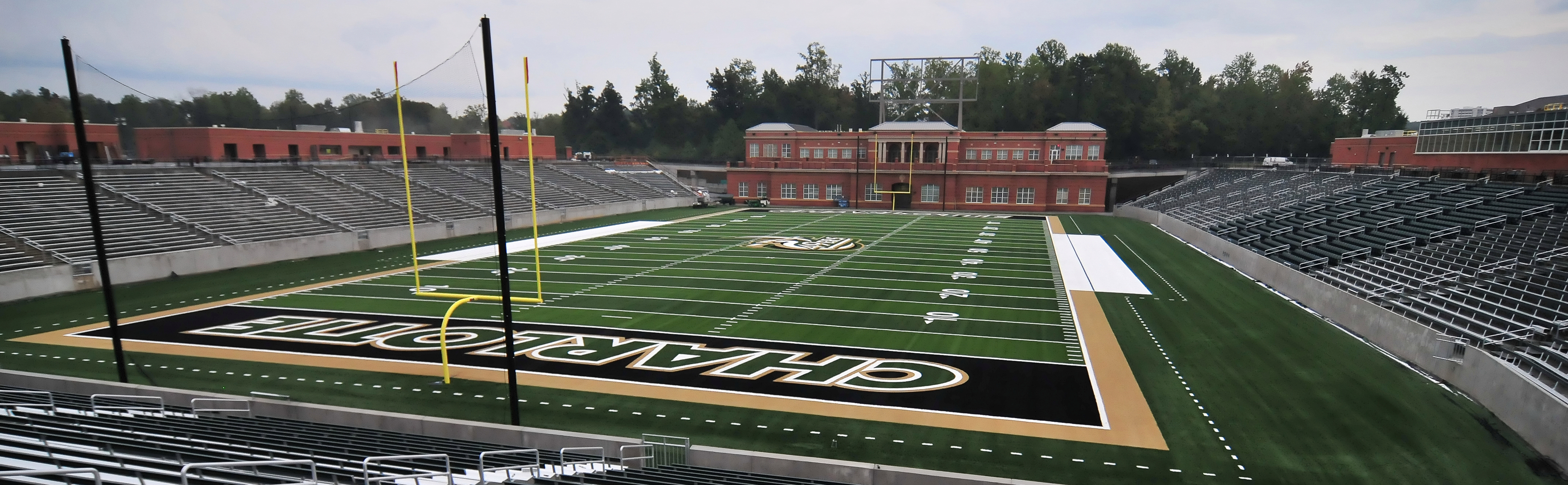 A cropped version (to make a wide, panoramic image) of File:Jerry Richardson Stadium.jpg